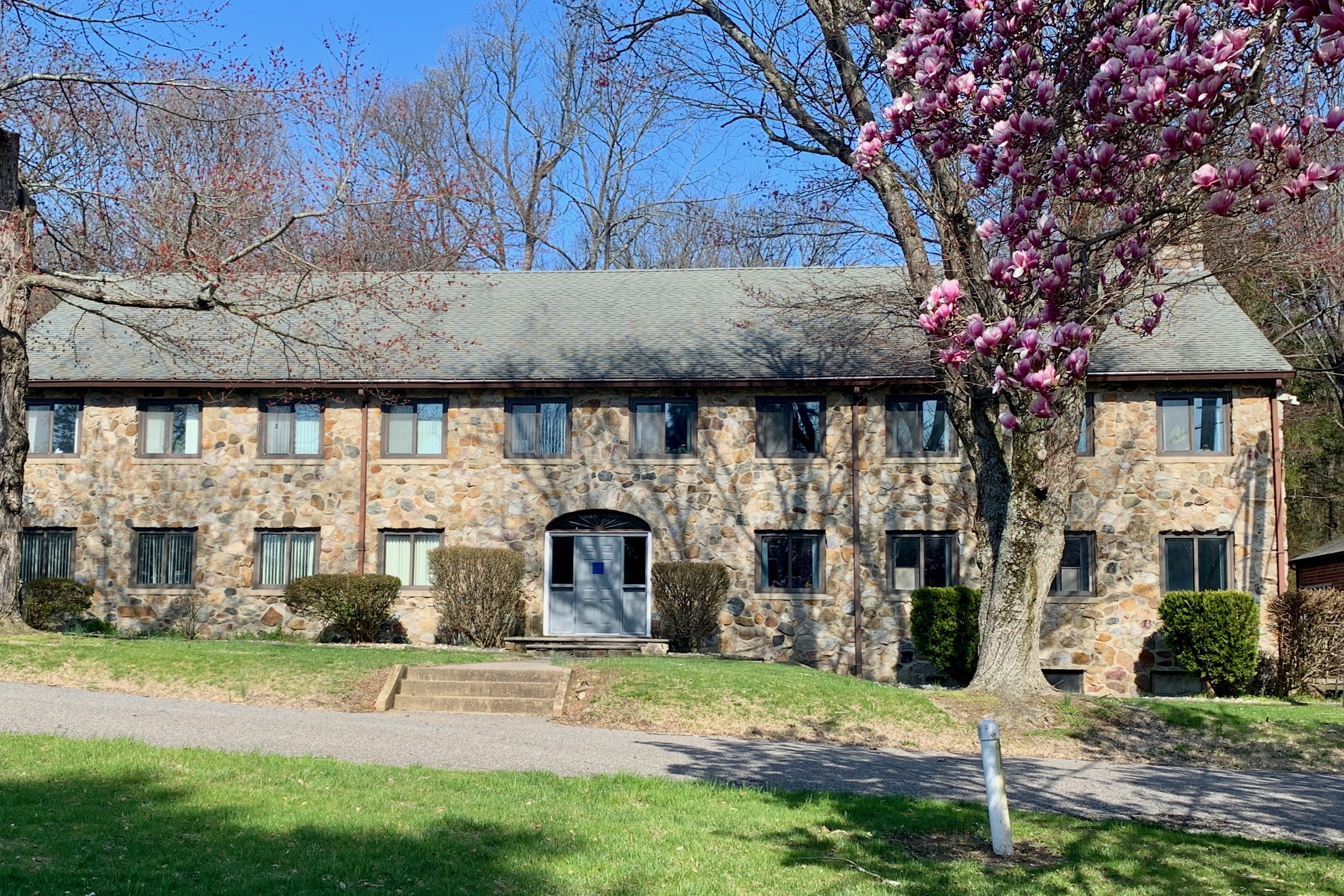 Office building in Bowerstown, New Jersey. Contributing property #12 in the Bowerstown Historic District. Built by Consumers' Research in 1934–35. Colonial Revival style. Now district offices for the Board of Education, Warren Hills Regional School District.